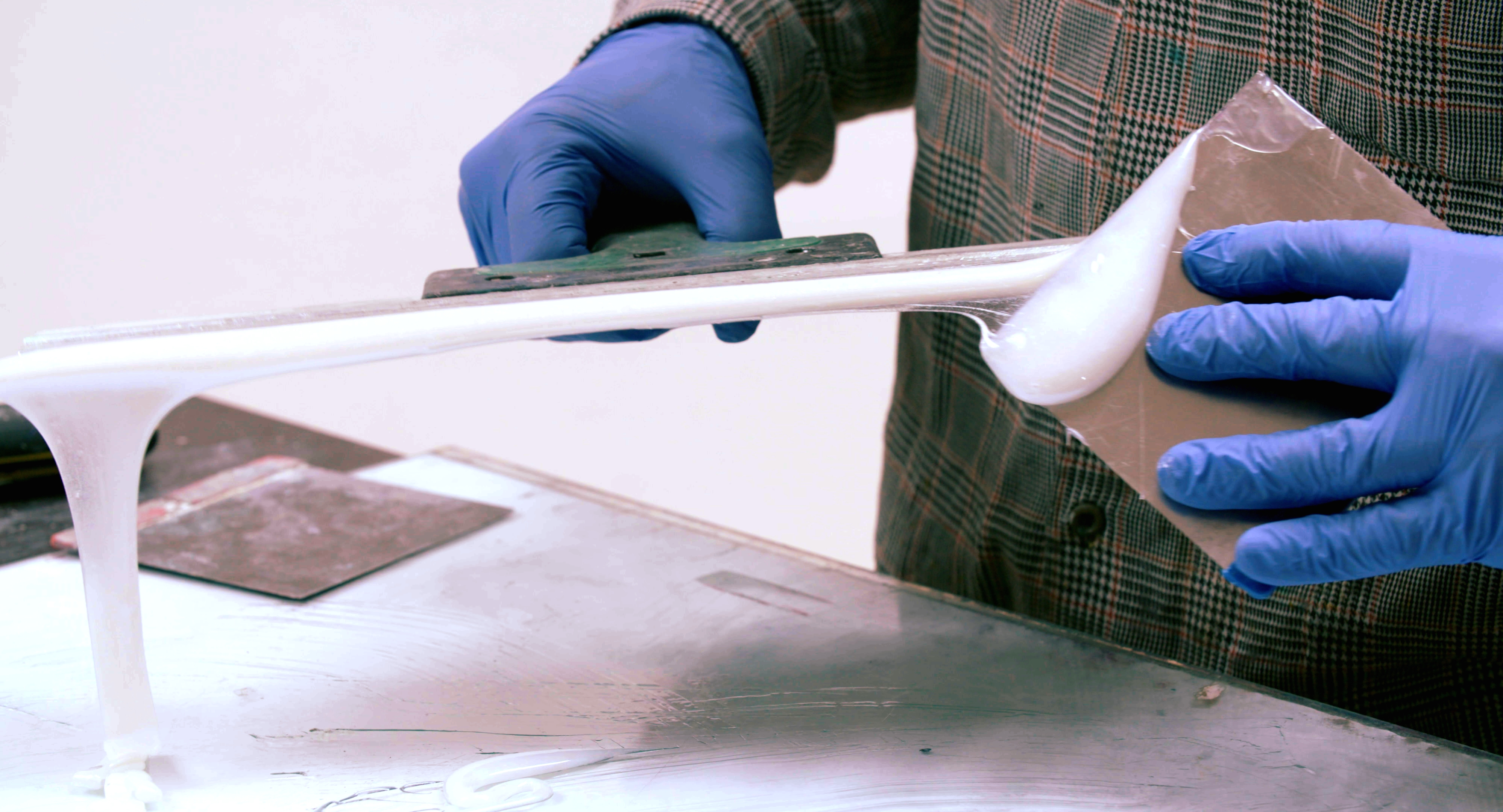 Bruno Kurz im Atelier